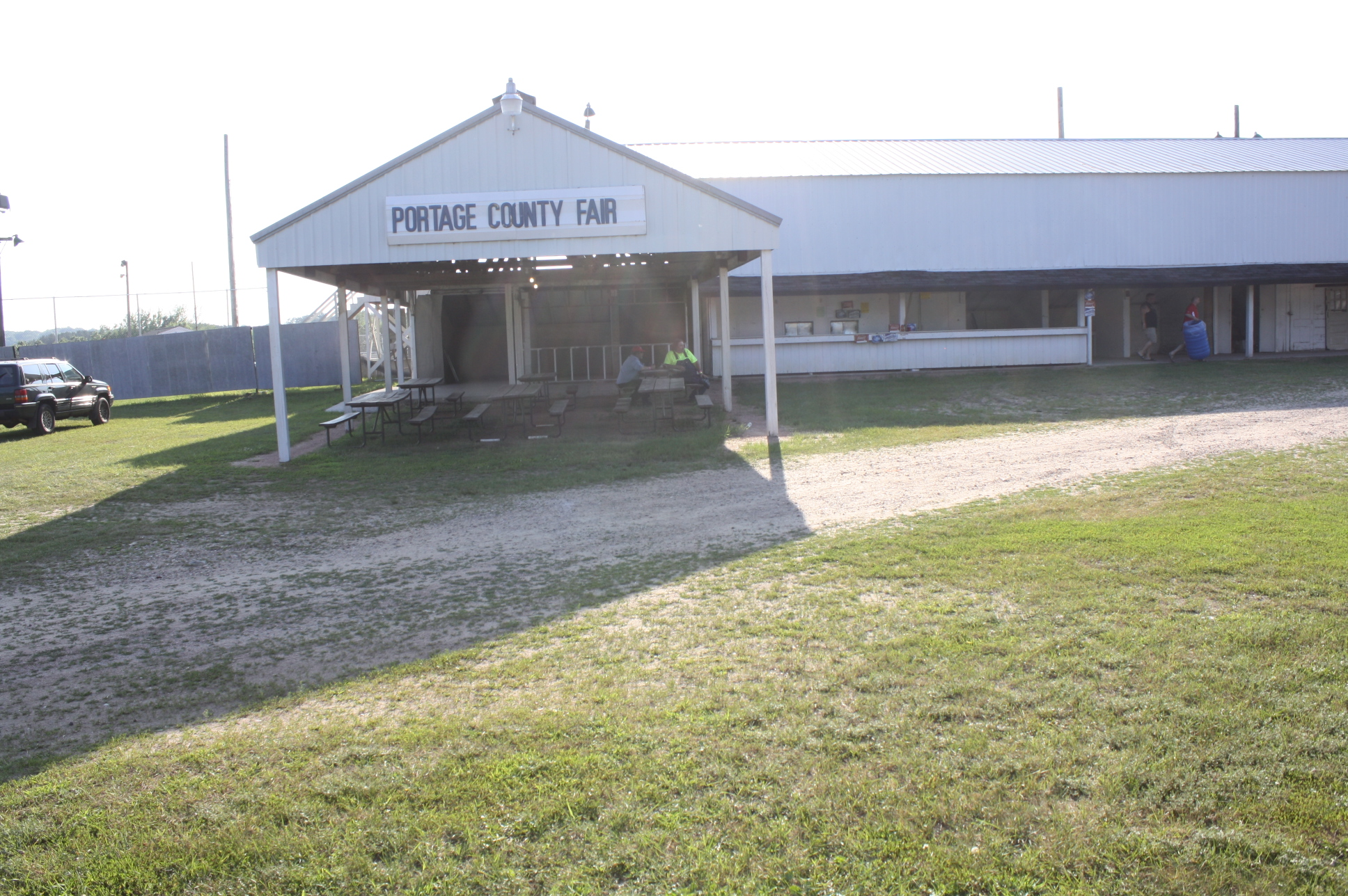 The Portage County, Wisconsin fairgrounds in Amherst, Wisconsin.